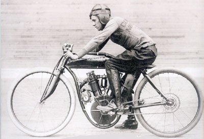 Eddie Hasha board track racing at Newark